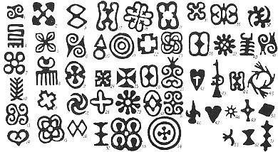 Adinkra symbols from Rattray's 1927 book. Low-res image found on